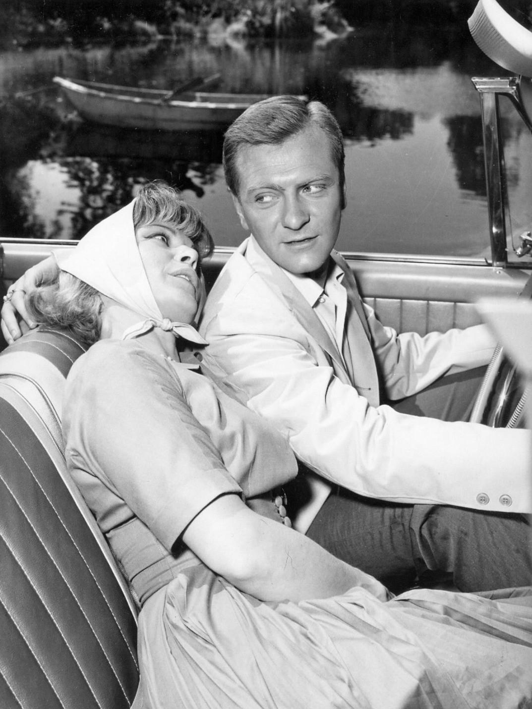 Photo of Gail Kobe and George Grizzard from the Twilight Zone episode "In His Image". This was the first hour-long edition of the program.